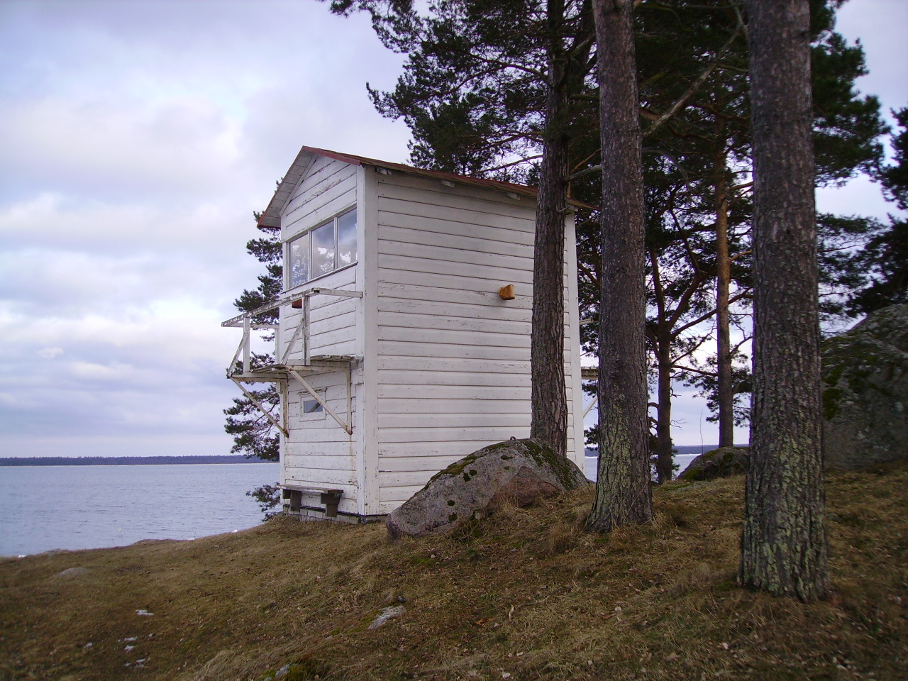 Majakas